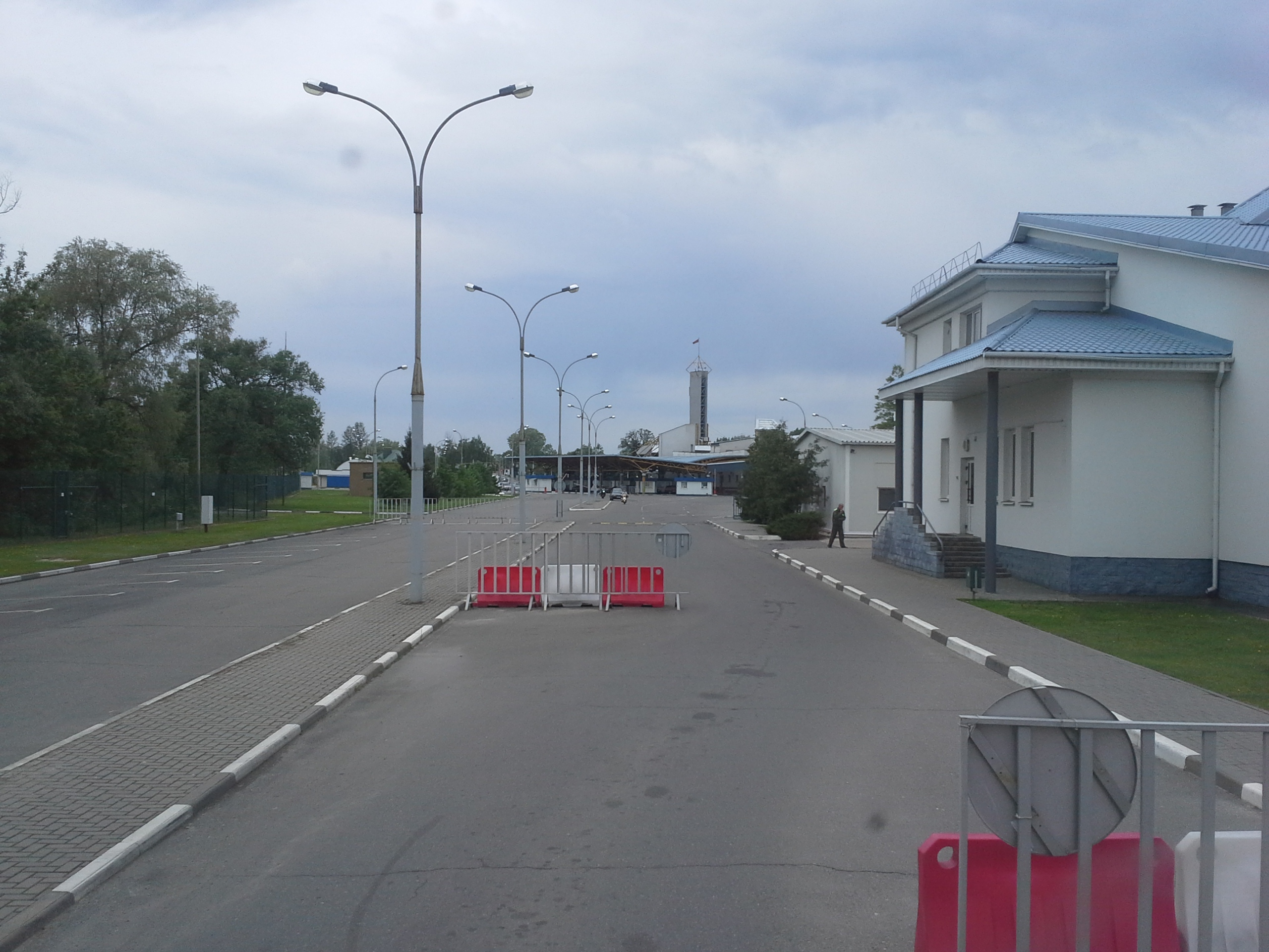 Brest internation border checkpoint